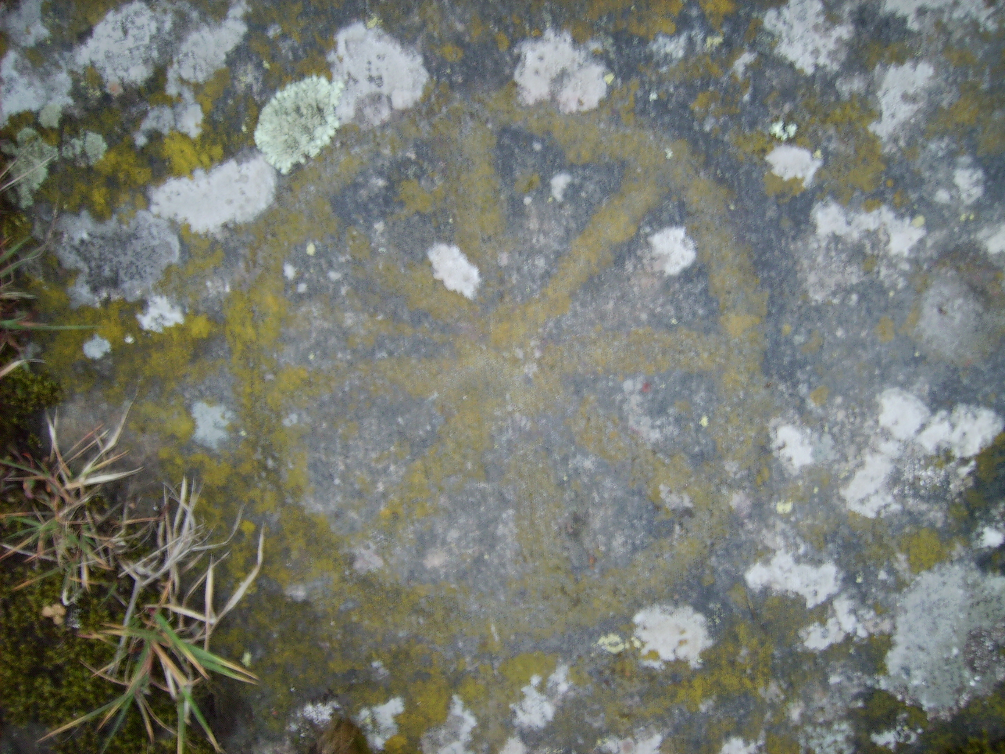 Photo by Harri Blomberg.